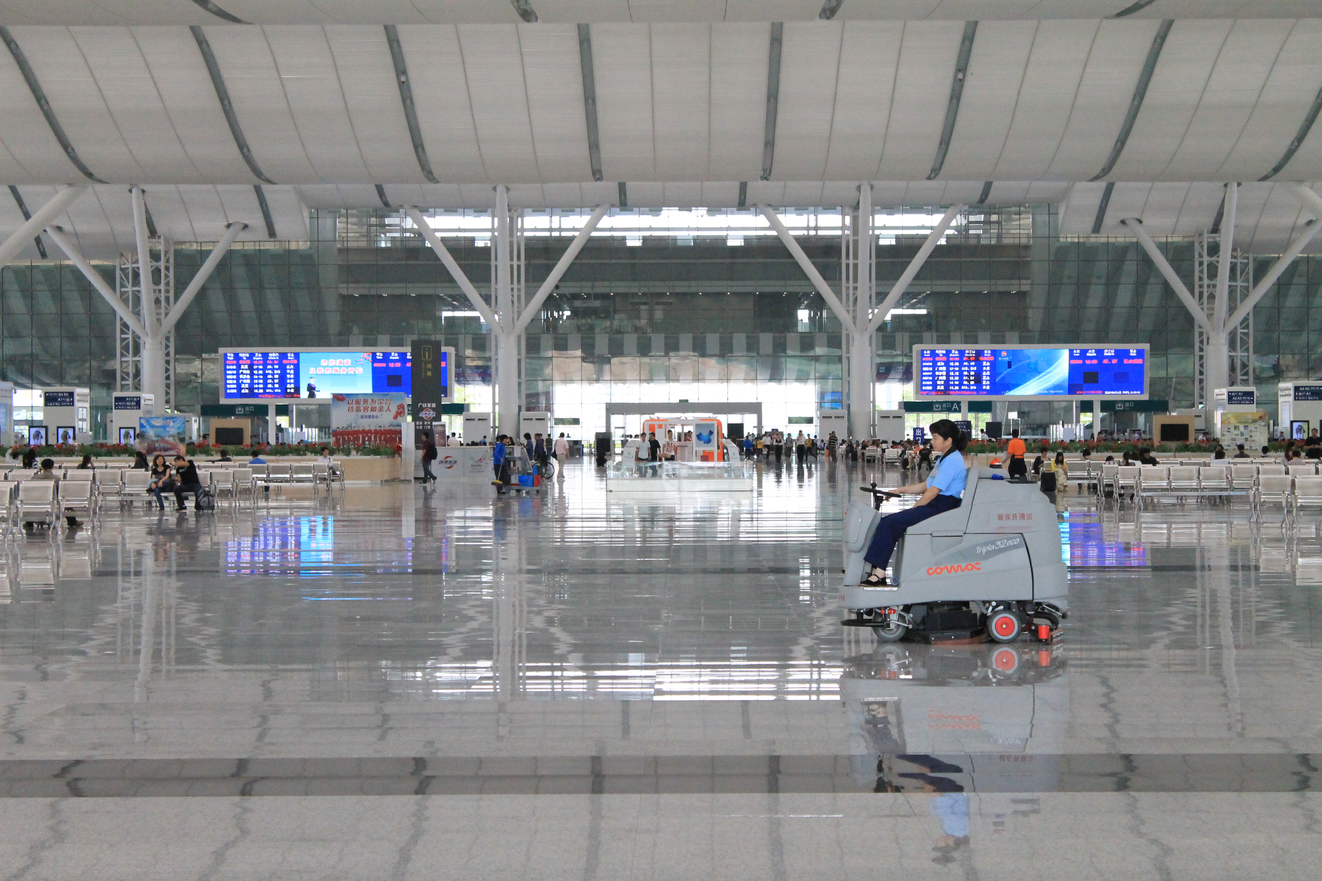 Interior of departures in Shenzhen North Railway station